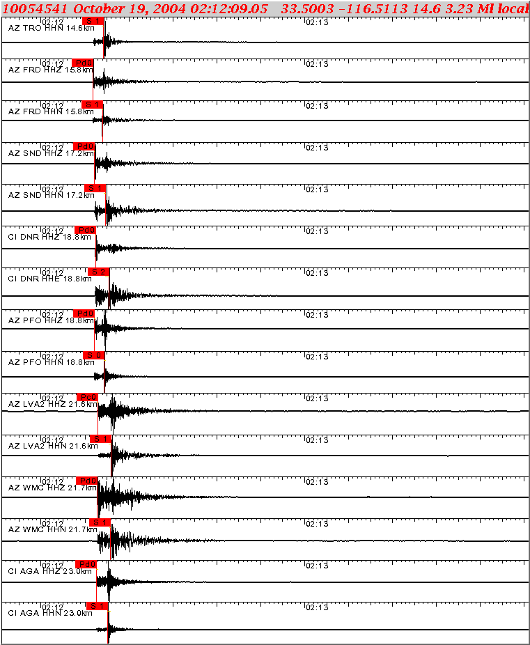 Graphs of seismograms earthquake